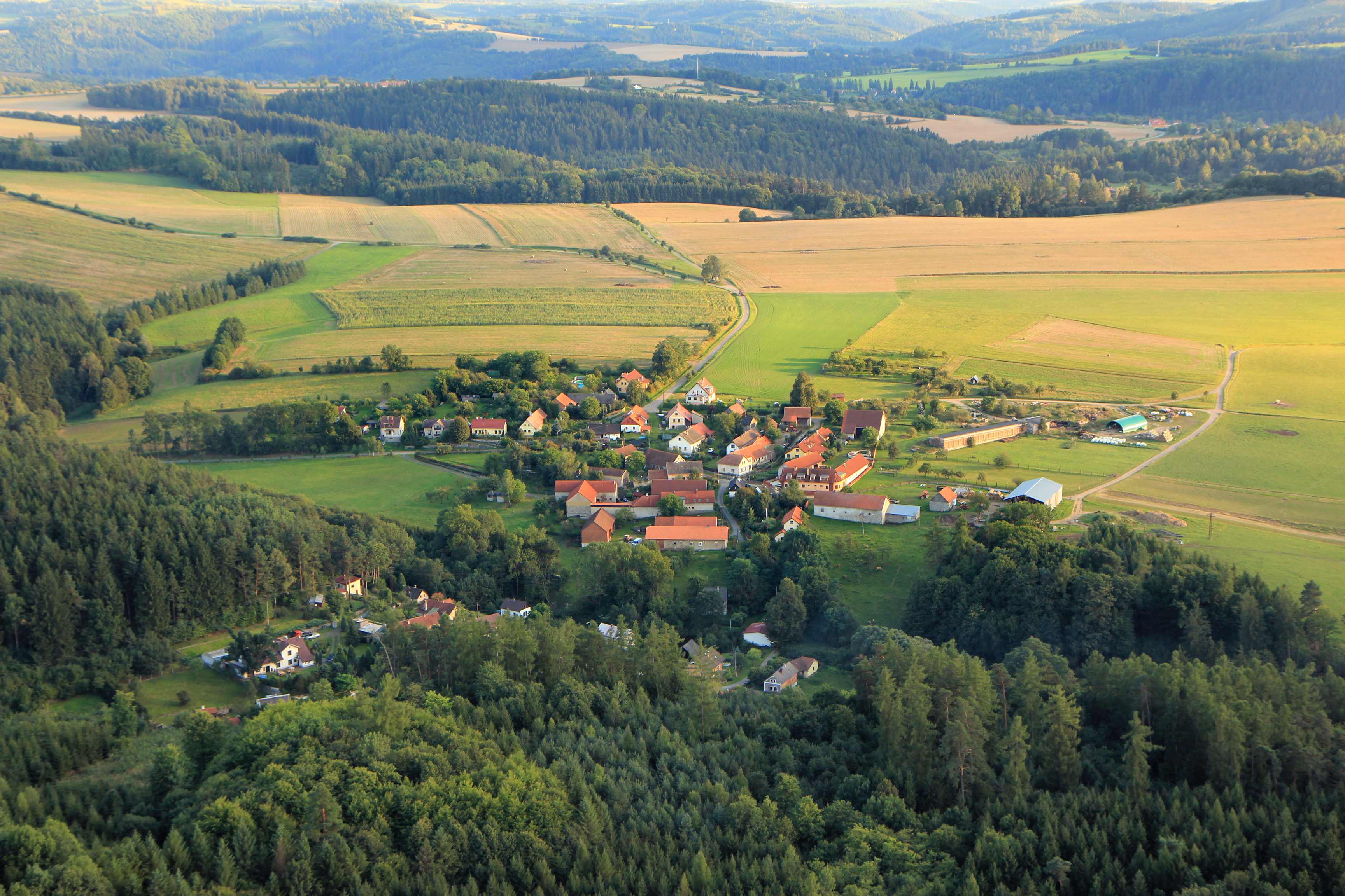 Aerial view of Malovidy, part of Rataje nad Sázavou castle, Czech Republic